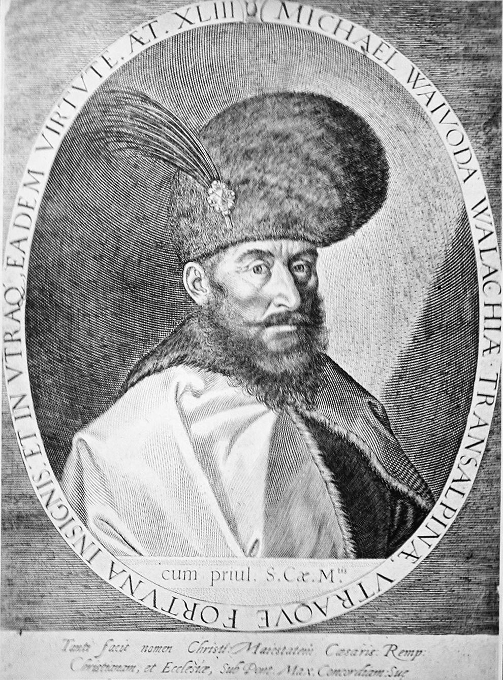 Portrait of Michael the Brave (1558-1601), prince of Wallachia, Transylvania and Moldavia made by Aegidius Sadeler II.